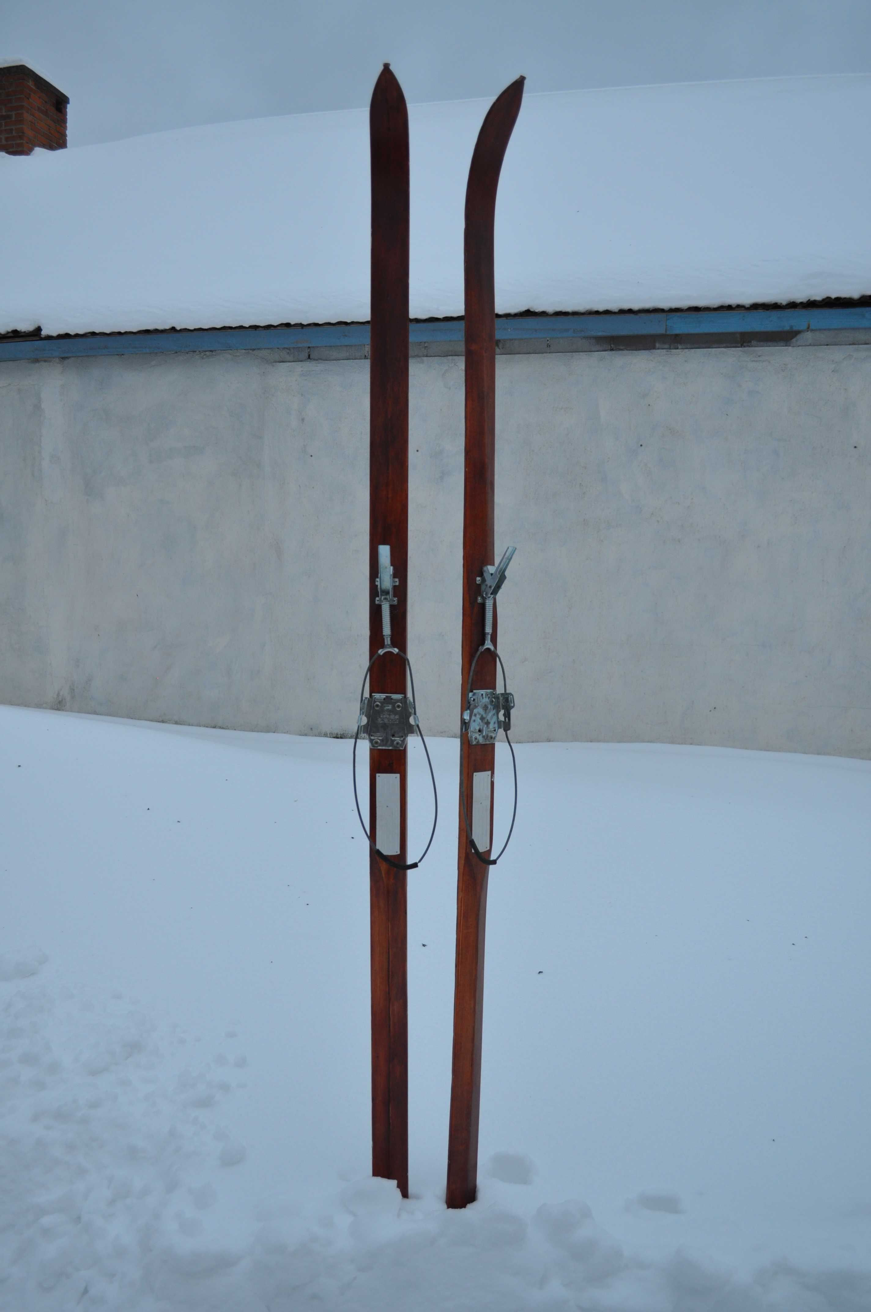 Forest ski - Skogsskidor